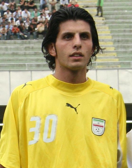 Vahid Talebloo in 2006. Photo taken by uploader.[1]